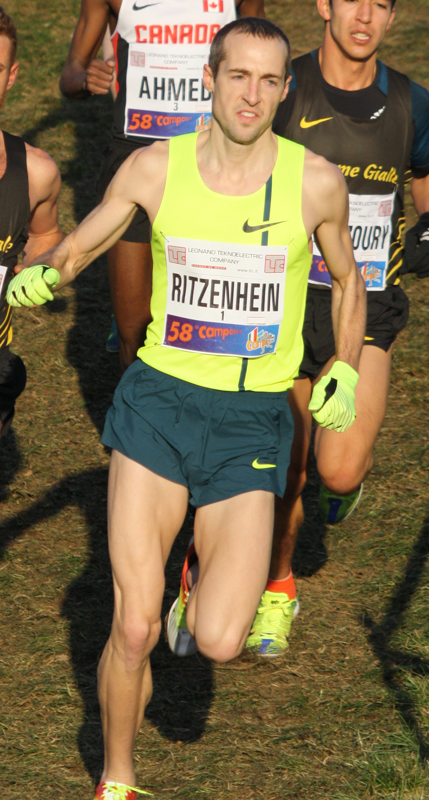 The American athlete Dathan Ritzenhein during the 58th edition on the Campaccio.